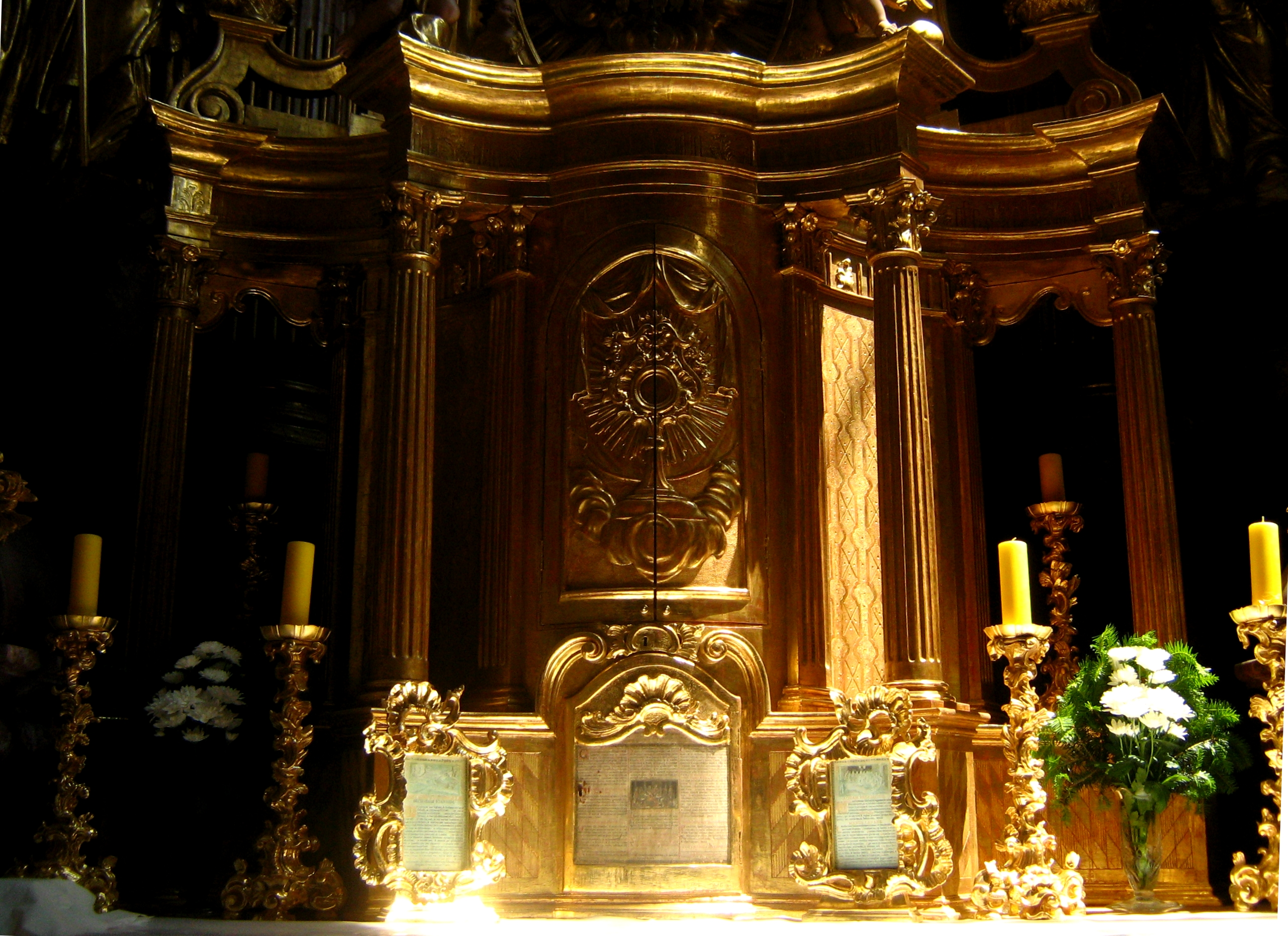 Baroque altar of the parish church in Lepoglava, Croatia, detail. Church tabernacle, rococo candelabra.